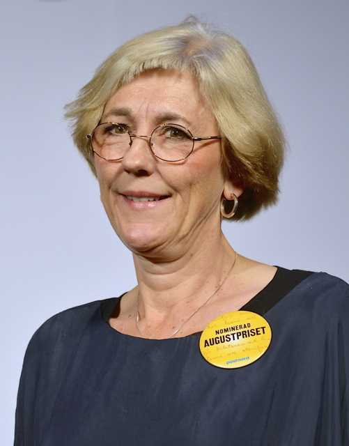 Nominated for the August Prize 2014.